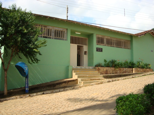 Albano Pires School